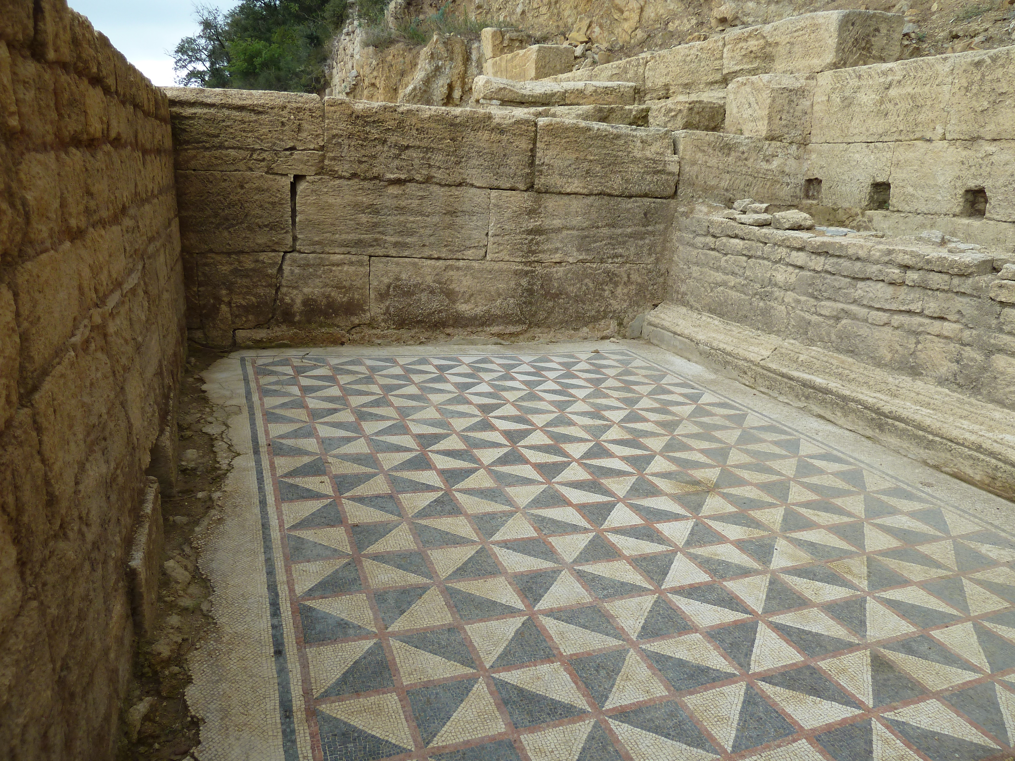 Murviel. Oppidum of Altimurium. Monumental Square. Northern porticoe. Late Hellenistic period monument.